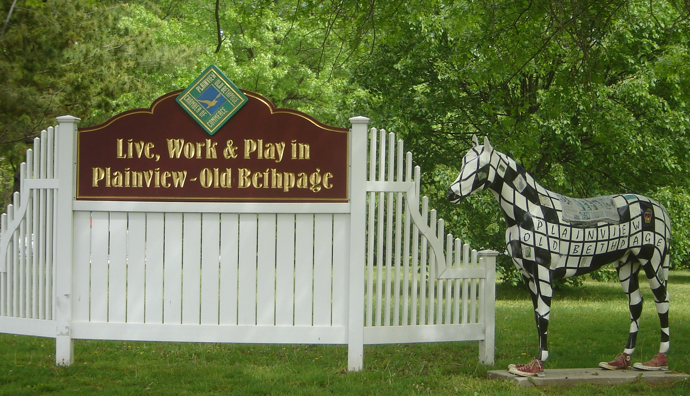 Welcome to Plainview and Old Bethpage sign nearby Plainview Hospital.